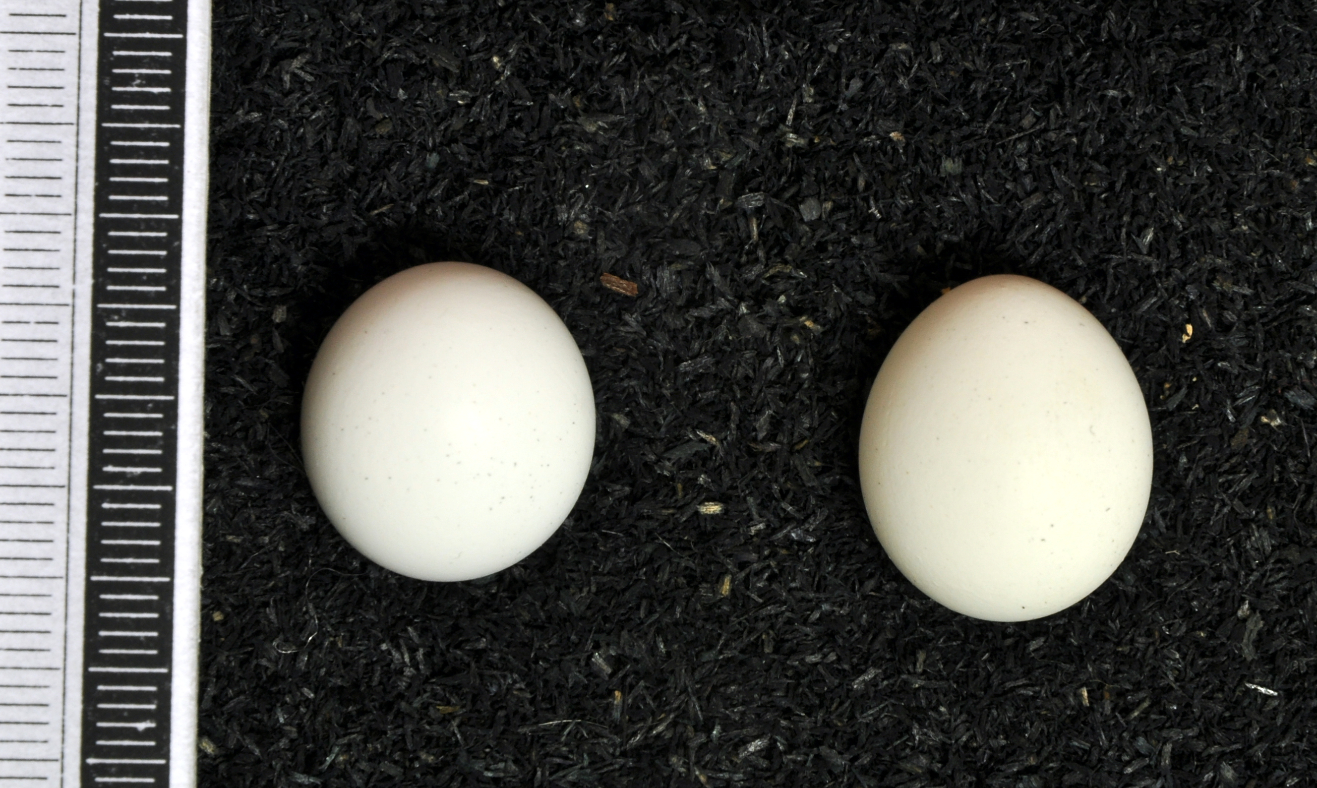 Bourke's parrot Neopsephotus bourkii , egg, Coll. Museum Wiesbaden